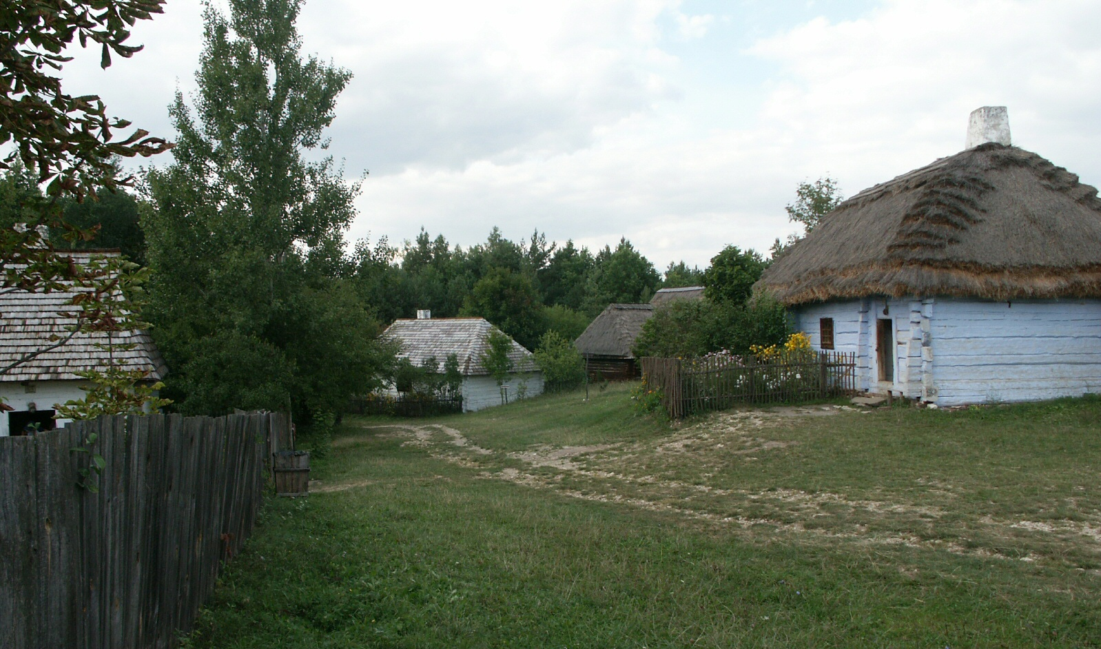 Old cottages in an open air museum of Kielce Region countryside in Tokarnia near Kielce, Poland: a site of many movies